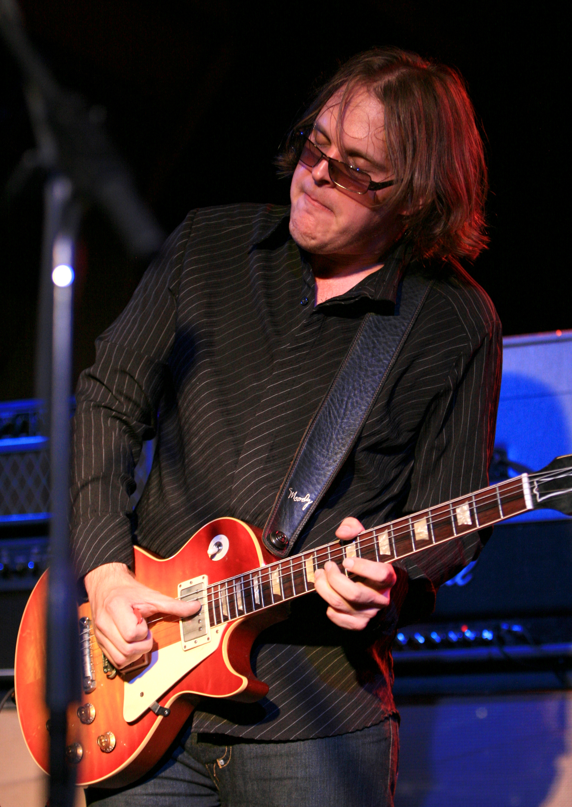 Joe Bonamassa